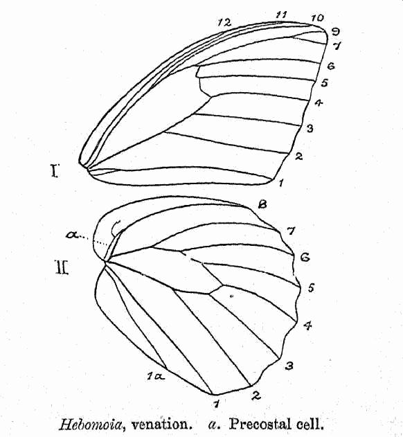 Hebomoia, wing venation